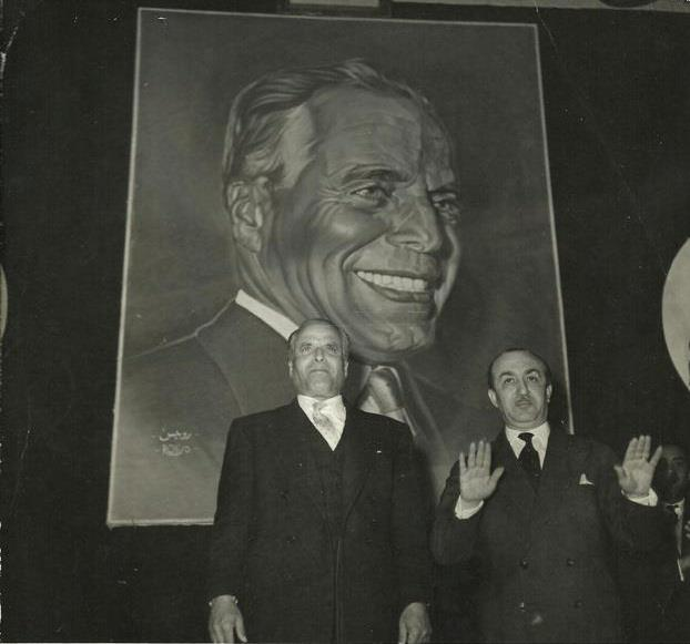 President Bourguiba with minister Mongi Slim